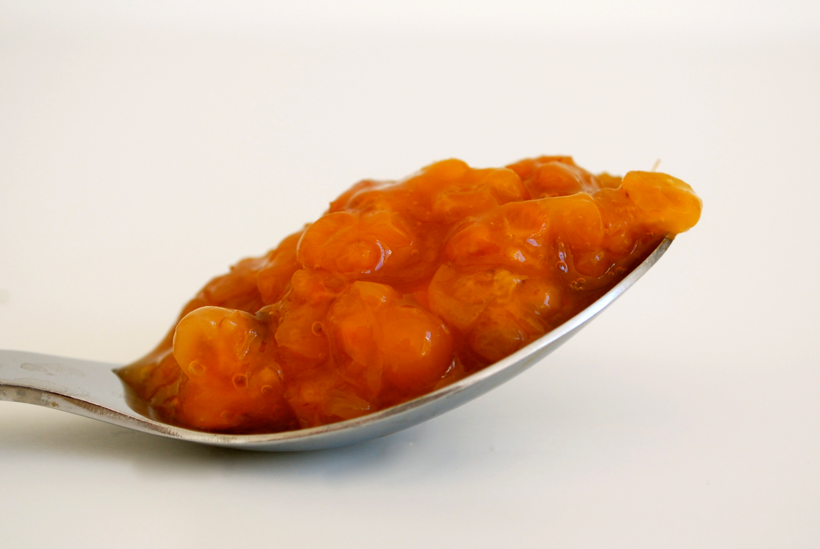 Homemade cloudberry jam. Cloudberries from Ljungdalen, Sweden.